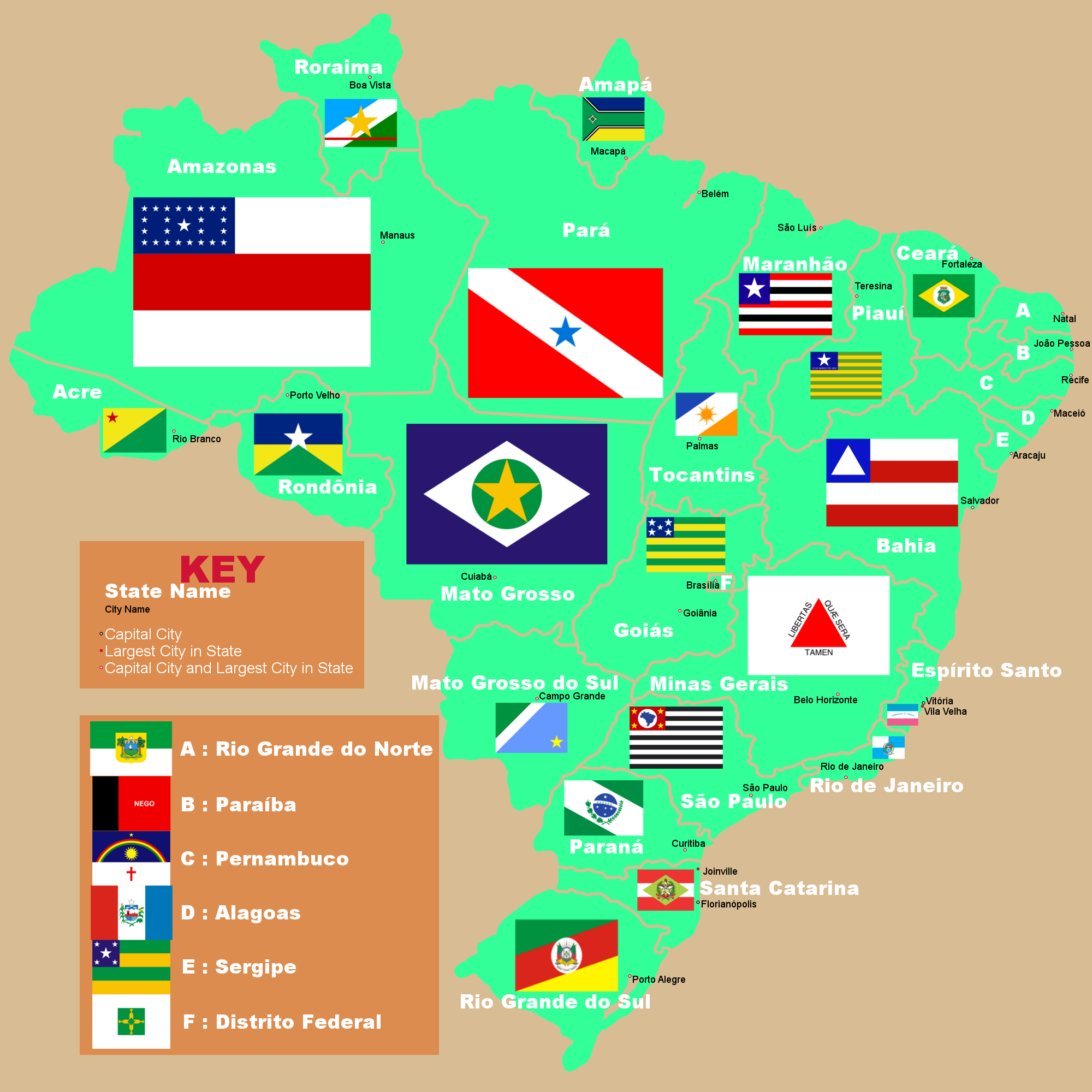 A map of the Brazilian States with their flags and with their State Capitals and State's largest city marked. Derived from Using Flags from Commons.